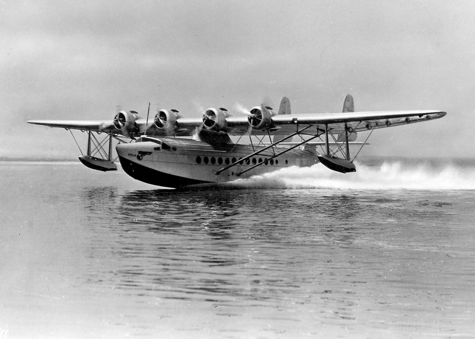 A Pan American Airways Sikorsky S-42 flying boat taking off.